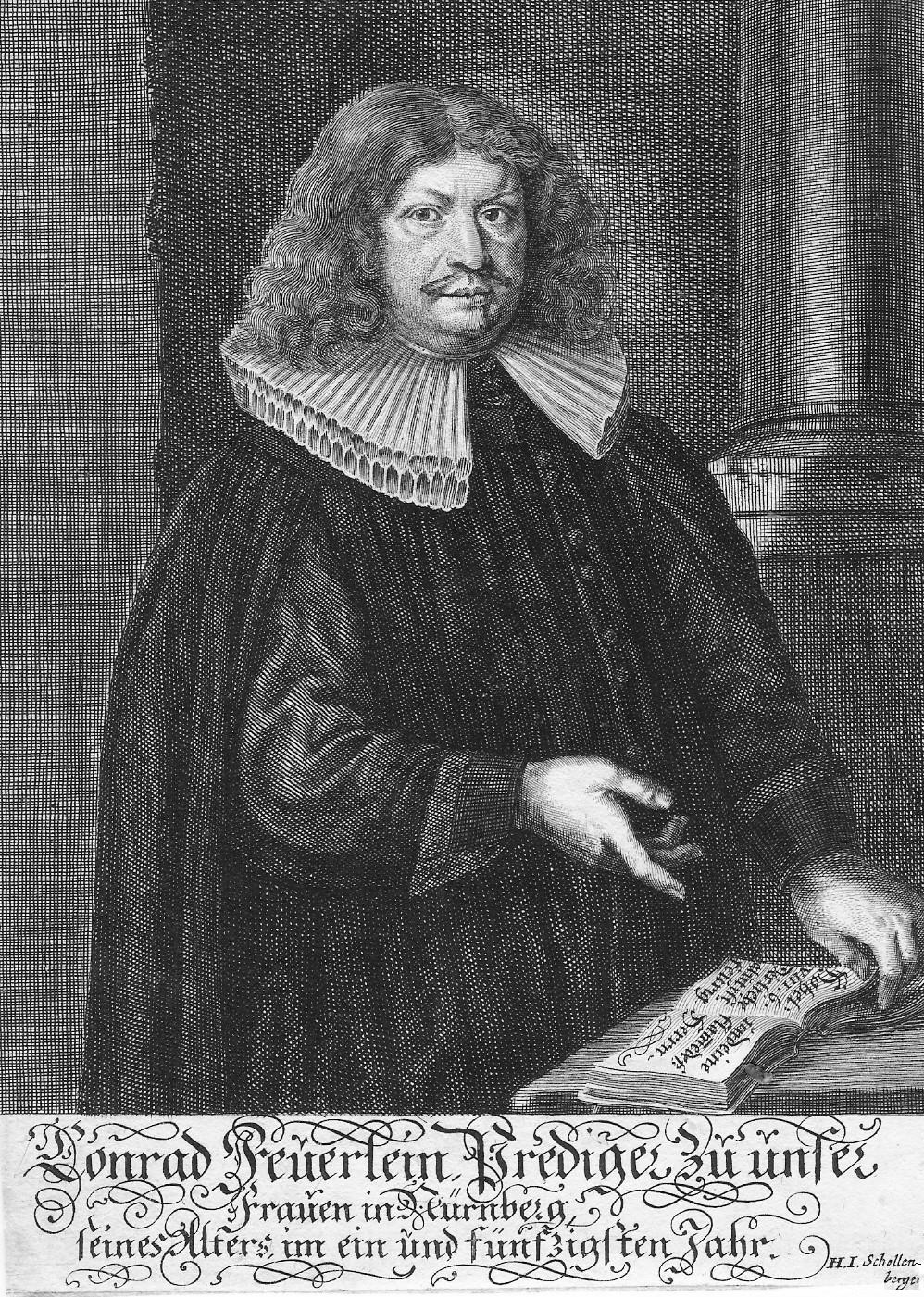 The preacher Conrad Feuerlein in Nuremberg in his 51st year